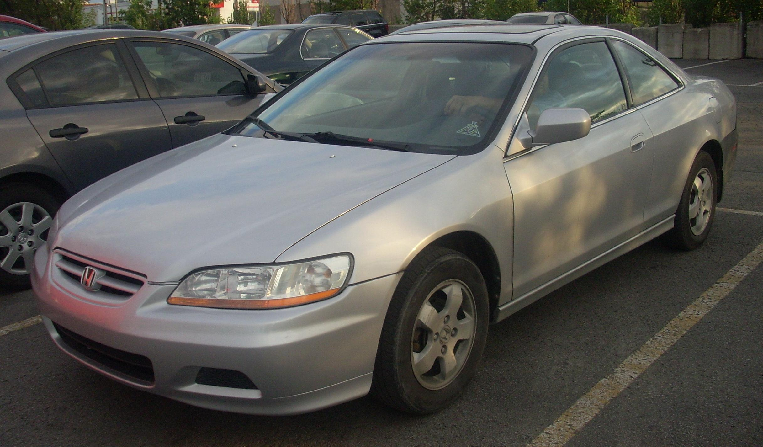 2001-2002 Honda Accord photographed in Montreal, Quebec, Canada at Gibeau Orange Julep.